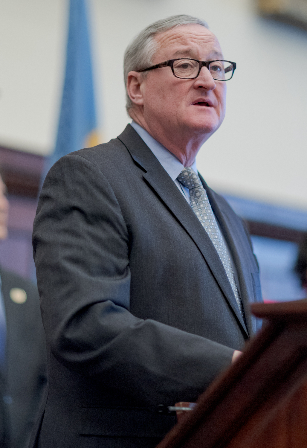 Philadelphia Mayor Jim Kenney speaks during a rally against the Heartbeat Bill and in support of women's reproductive rights inside Philadelphia City Hall on Friday, November 1, 2019.